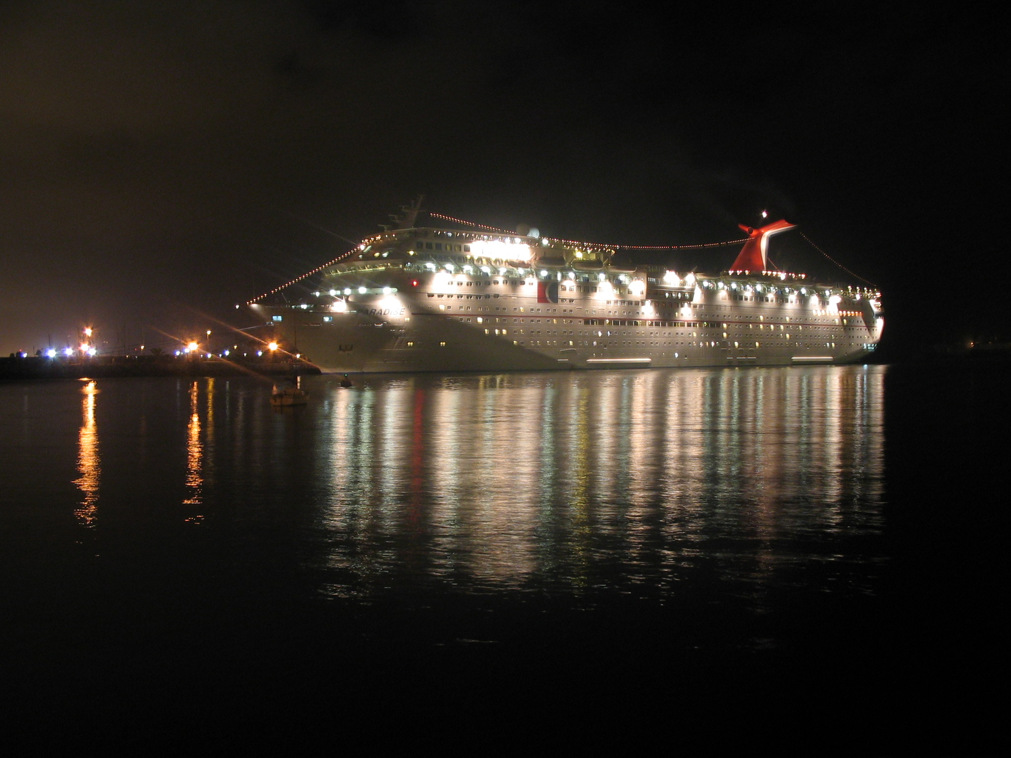 A hip docked in Ensenada's Port